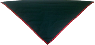 Курінна хустка 55